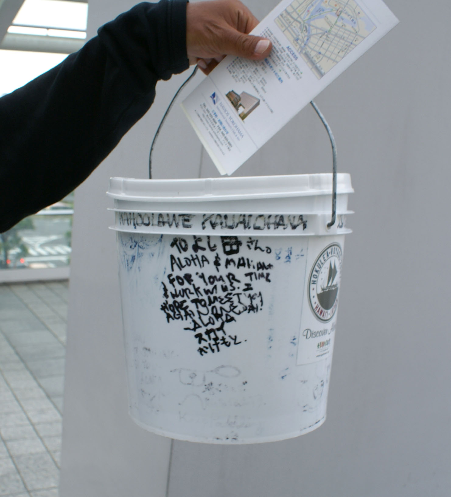 A watertighte bucket of Hokule'a crewmember